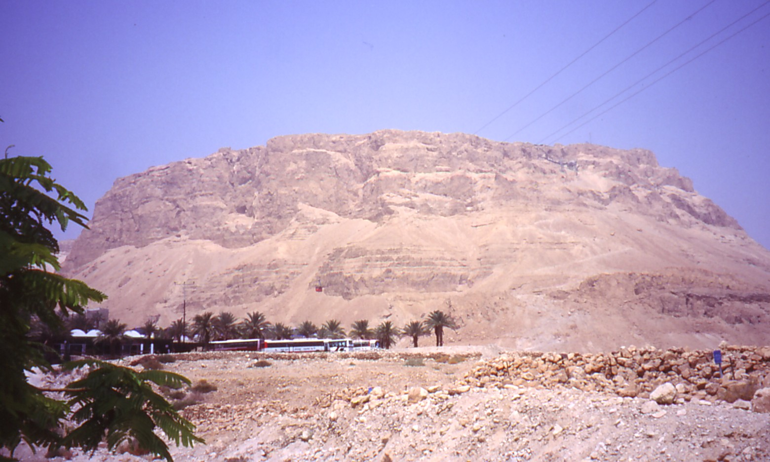 Fortress of Massada near the Dead Sea (Israel), seen from the east. Wüstenfestung Massada am Toten Meer (Israel), Blick von Osten.